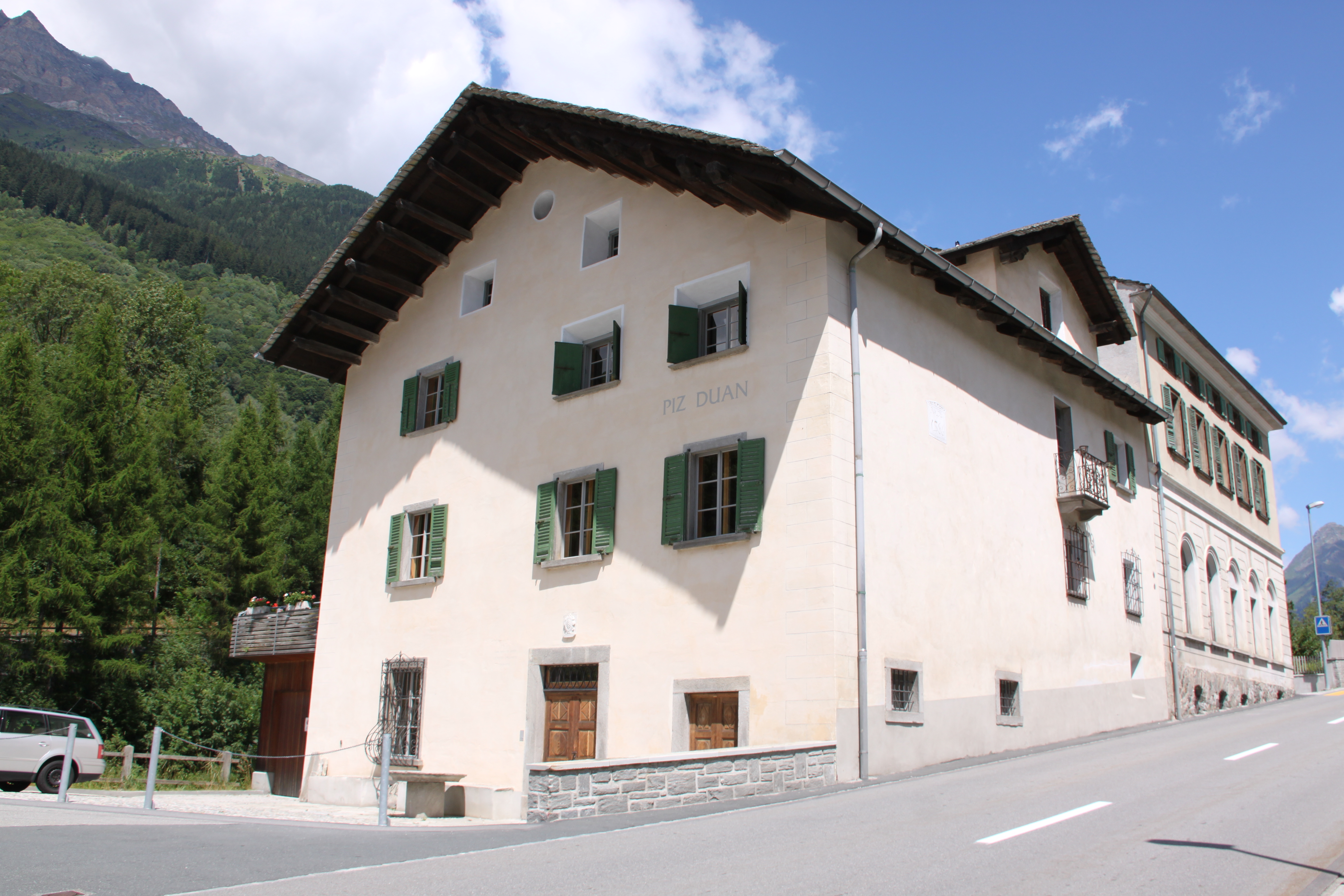 The house of Giovanni Giacometti in Stampa, Switzerland